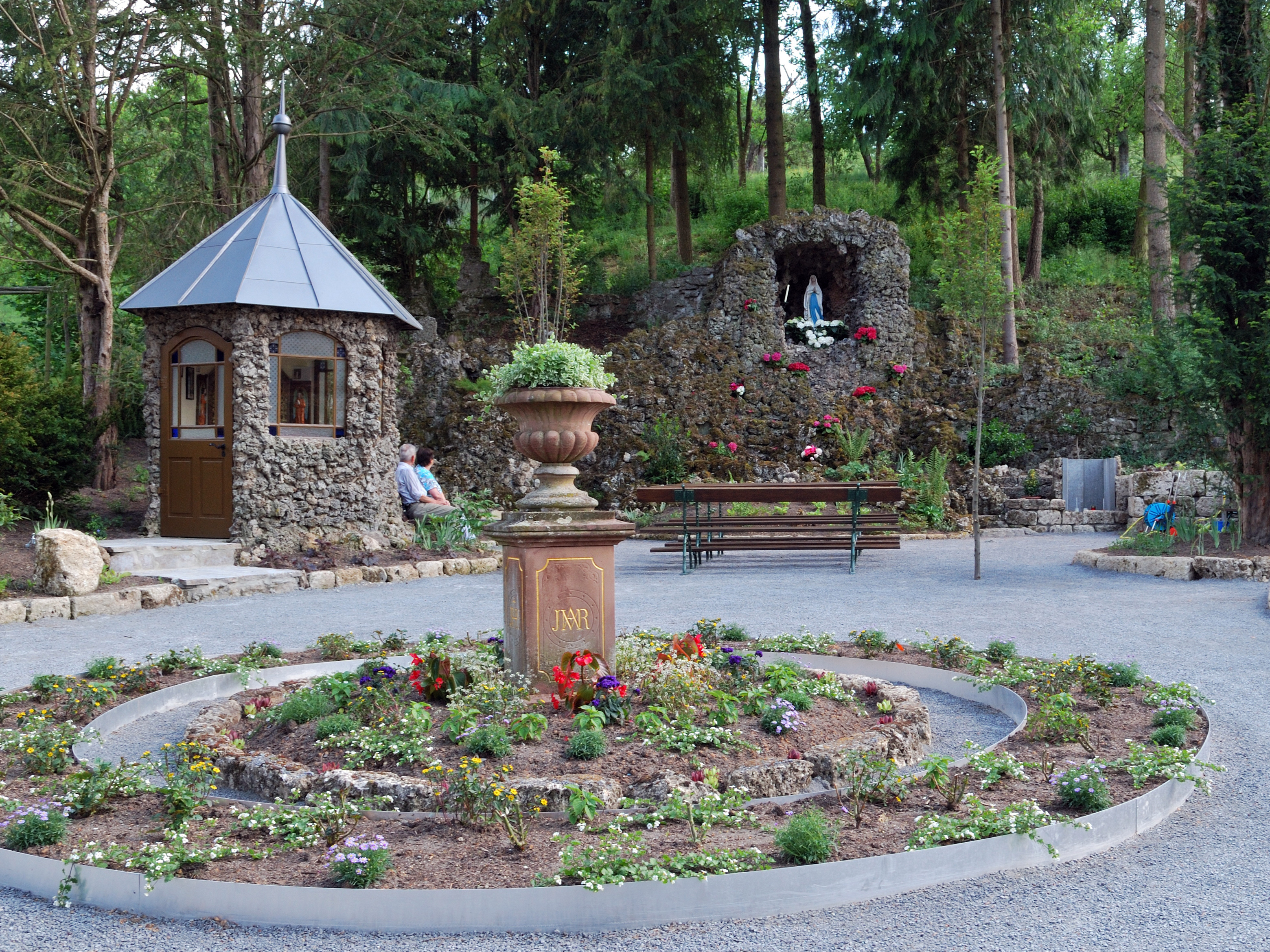 Lourdes Grotto in Zaisenhausen in Southern Germany.